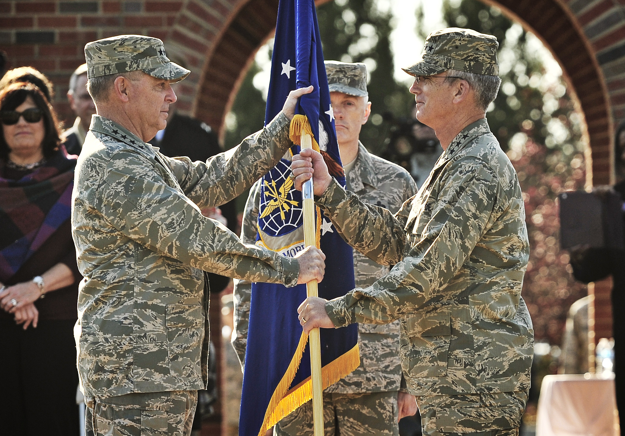 General Selva assumes command of Air Mobility Command